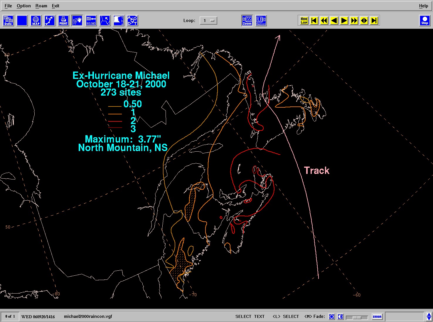 Storm total rainfall map of Hurricane Michael during October 2000.